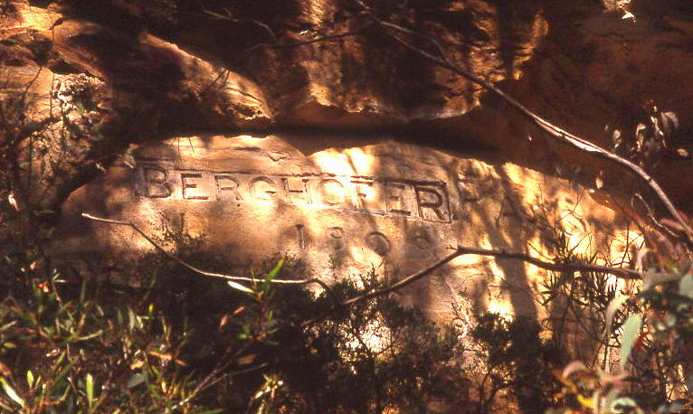 Bergofers Pass, Mt York, Blue Mts, NSW, Australia (non-digital image, altered by Sardaka, 2015-1-13, for sharpness and lightening)